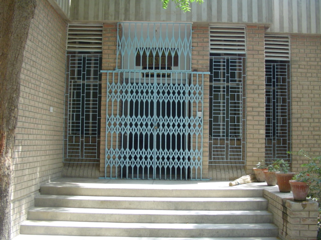 Academic Block 1